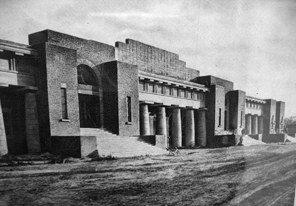 Constructivist Stadium Metallist in Kharkov, 1930th. Poscard of the USSR